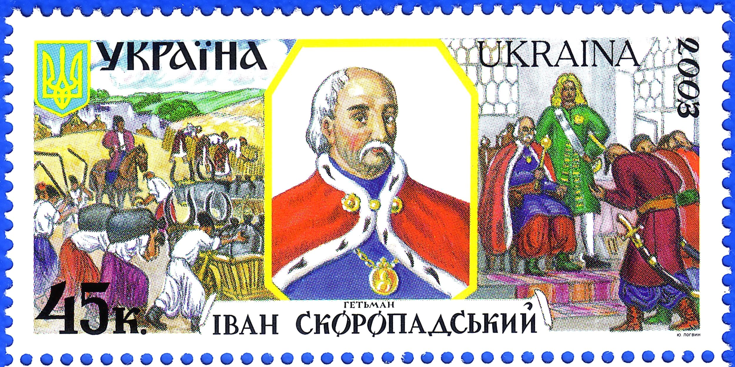 Stamp of Ukraine Марка Украины из серии Гетманы Украины. Иван Скоропадский